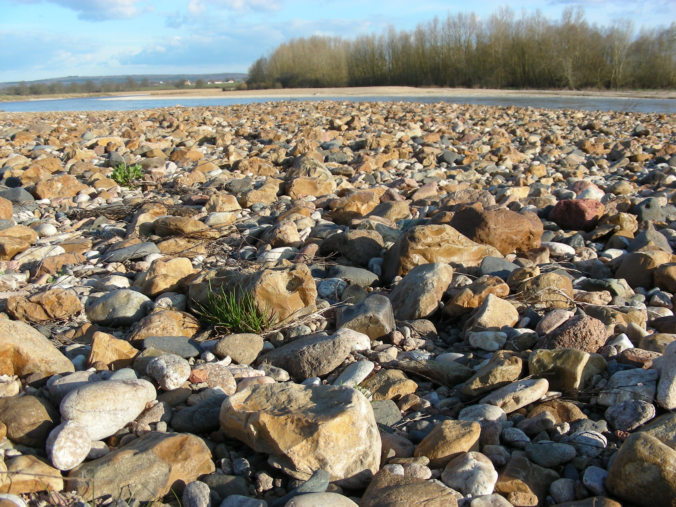 France,the siliceous pebbles of the banks of the Loire near Marcigny (71).